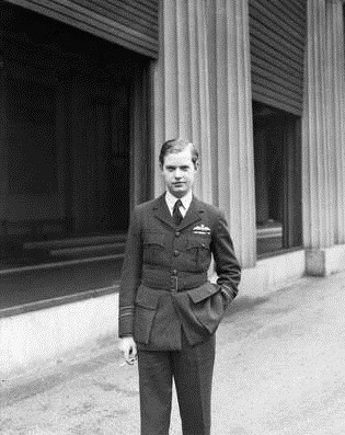 London: Portrait of the most highly decorated Royal Australian airman flying, 22 year old 407729 Flight Lieutenant David John Shannon DSO and Bar DFC and Bar, of Bridgewater, SA, member of the Dambusters, was one of nineteen Australian airmen who attended Buckingham Palace for an investiture.